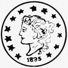 Front of the Portland Penny